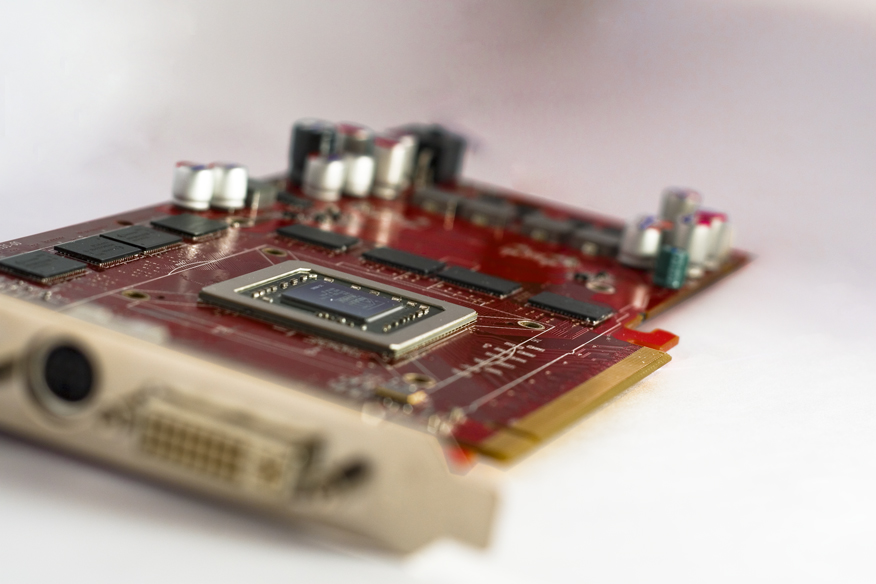 HD4850 ATI